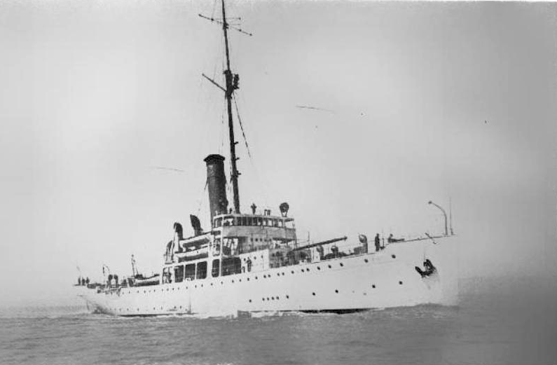 First electric Coast Guard Cutter Tampa, 1921.